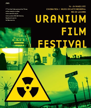 Montage of film stills from the International Uranium Film Festival, 2013, Design MAM